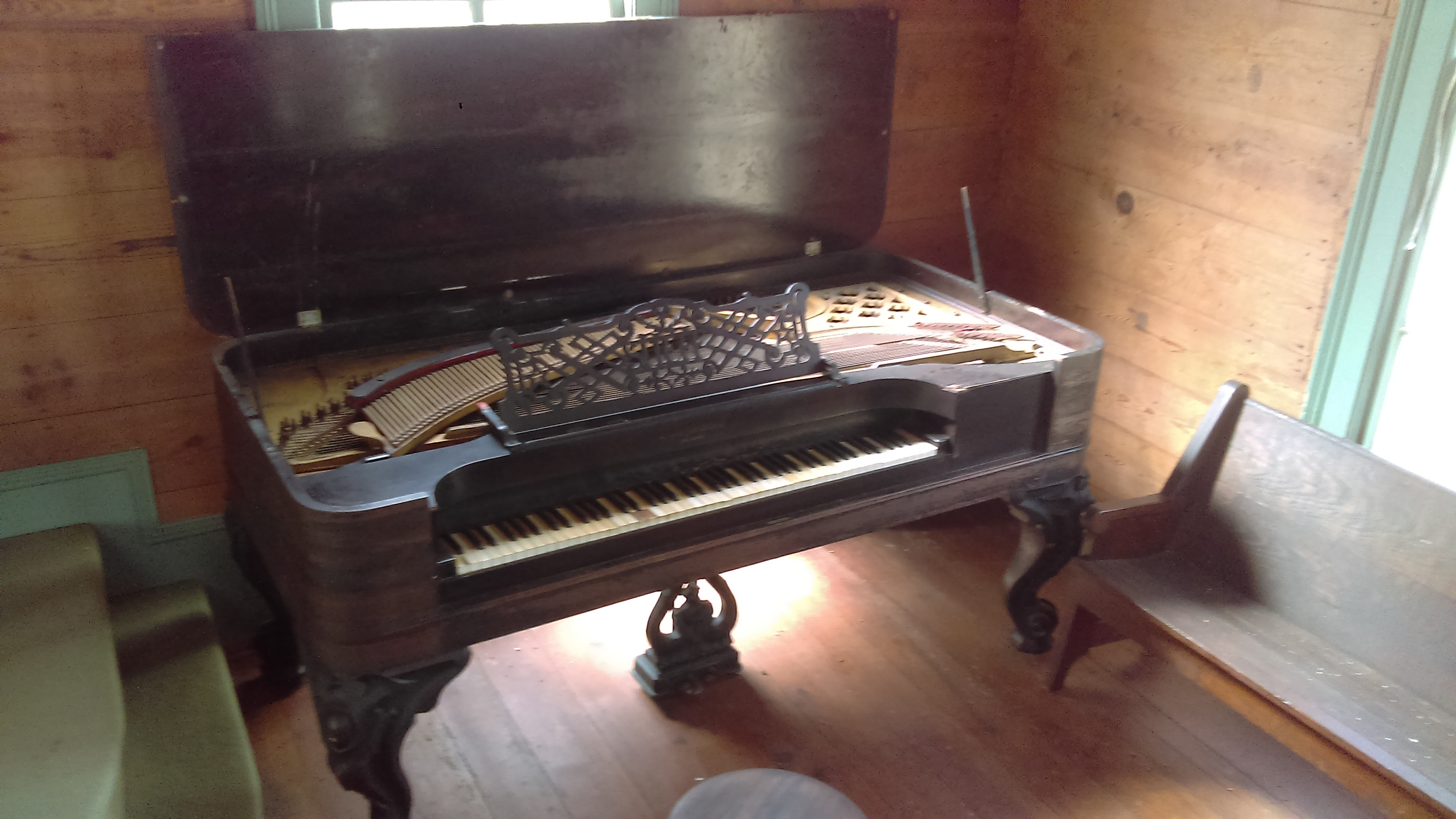 Square Grand Piano in O'Kelly's Chapel